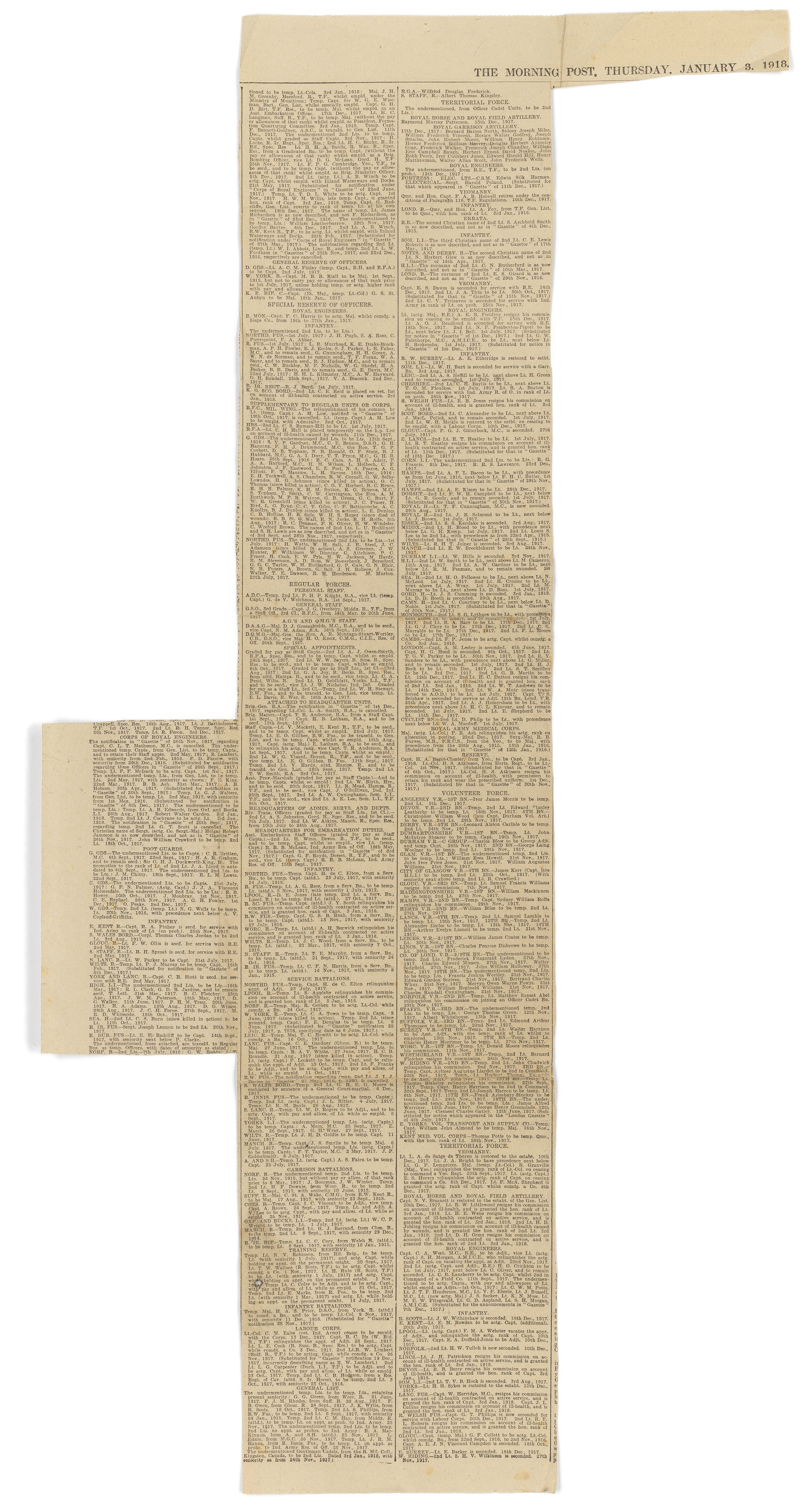 Clipping from 'The Morning Post' Archives & Manuscripts